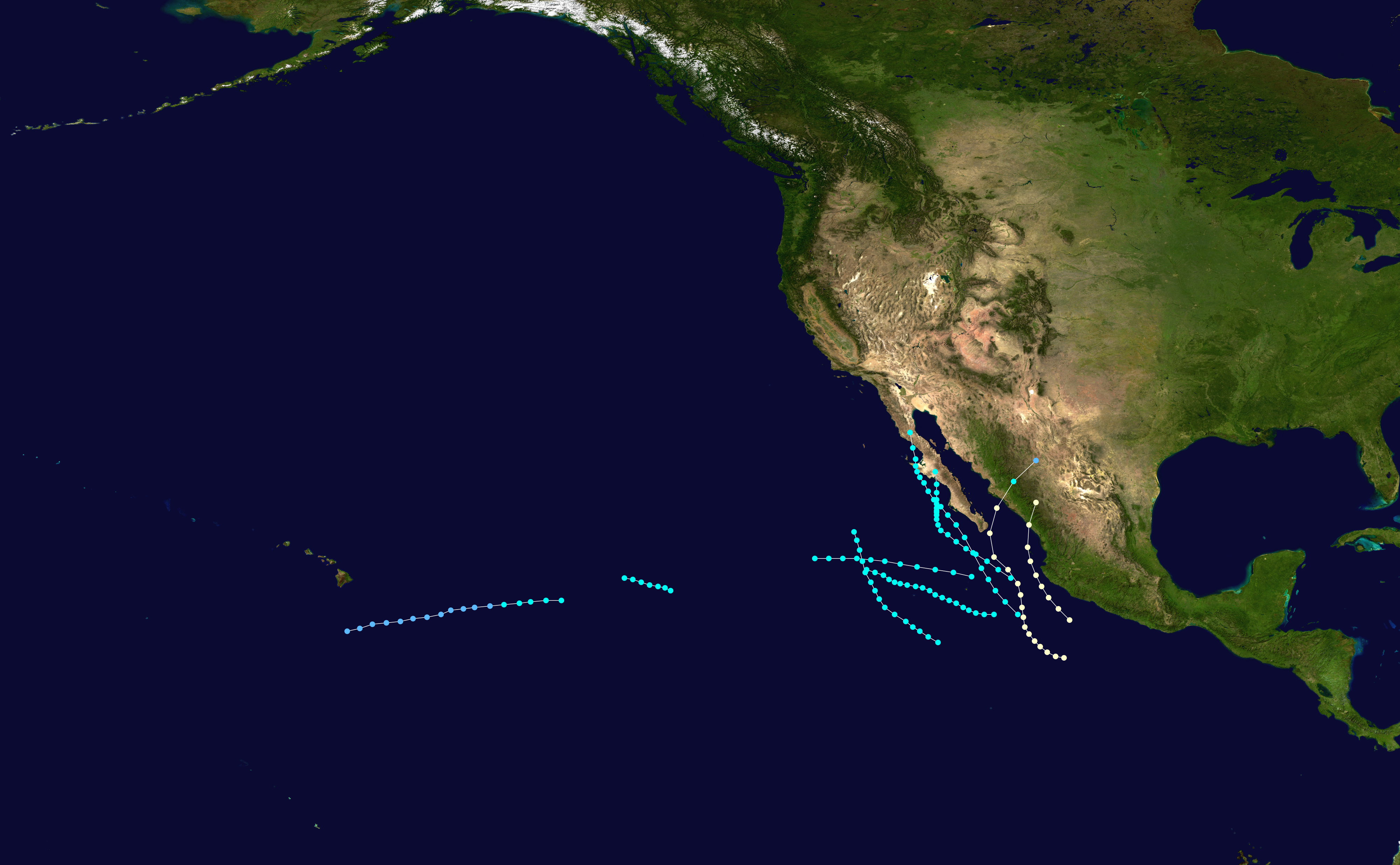 This map shows the tracks of all tropical cyclones in the 1962 Pacific hurricane season. The points show the location of each storm at 6-hour intervals. The colour represents the storm's maximum sustained wind speeds as classified in the Saffir-Simpson Hurricane Scale (see below), and the shape of the data points represent the type of the storm. Saffir–Simpson hurricane wind scale Tropical depression≤38 mph≤62 km/h Category 3111–129 mph178–208 km/h Tropical storm39–73 mph63–118 km/h Category 4130–156 mph209–251 km/h Category 174–95 mph119–153 km/h Category 5≥157 mph≥252 km/h Category 296–110 mph154–177 km/h Unknown Storm typeTropical cycloneSubtropical cycloneExtratropical cyclone / Remnant low / Tropical disturbance